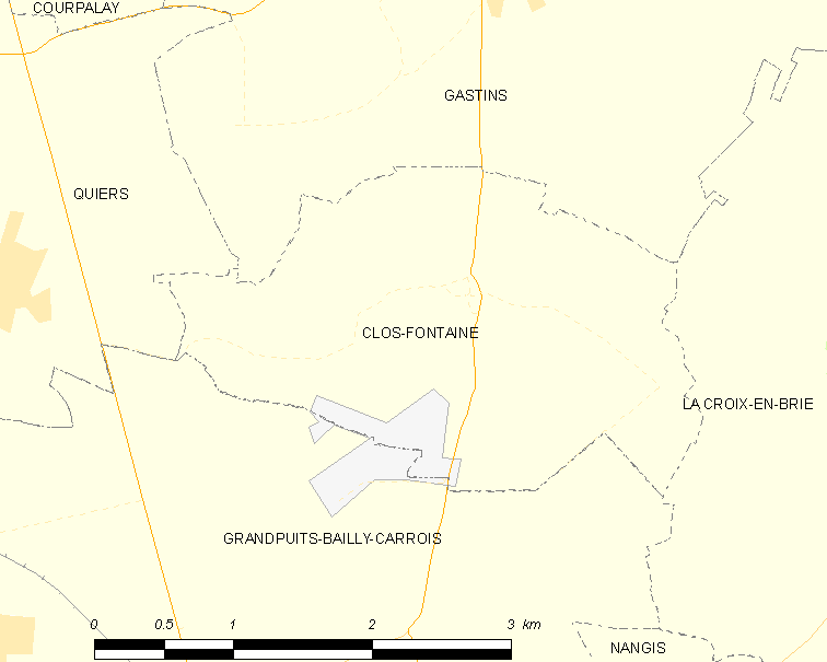 Map of French municipality Clos-Fontaine